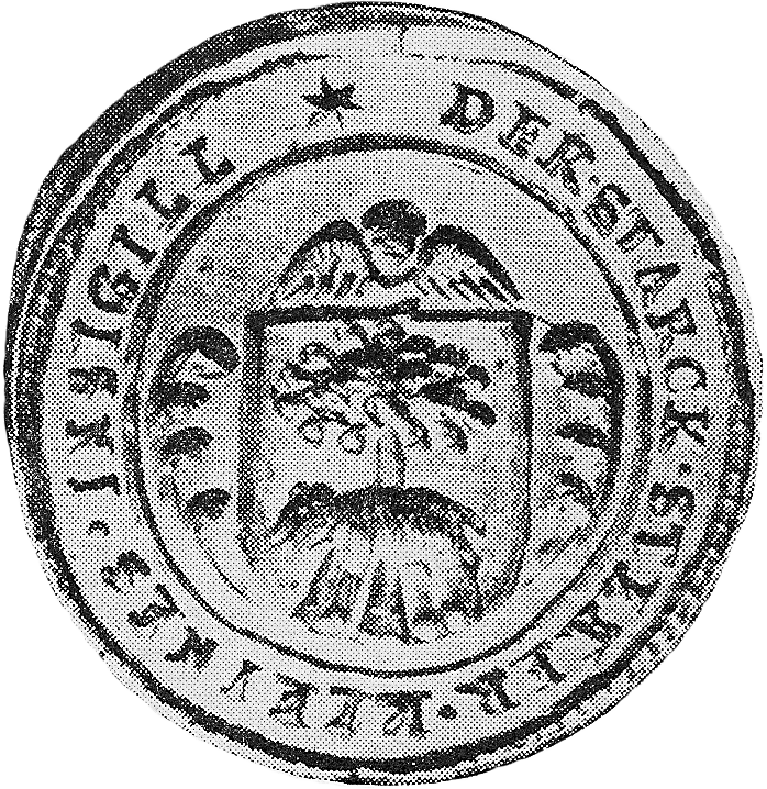 Signet of town Stárkov